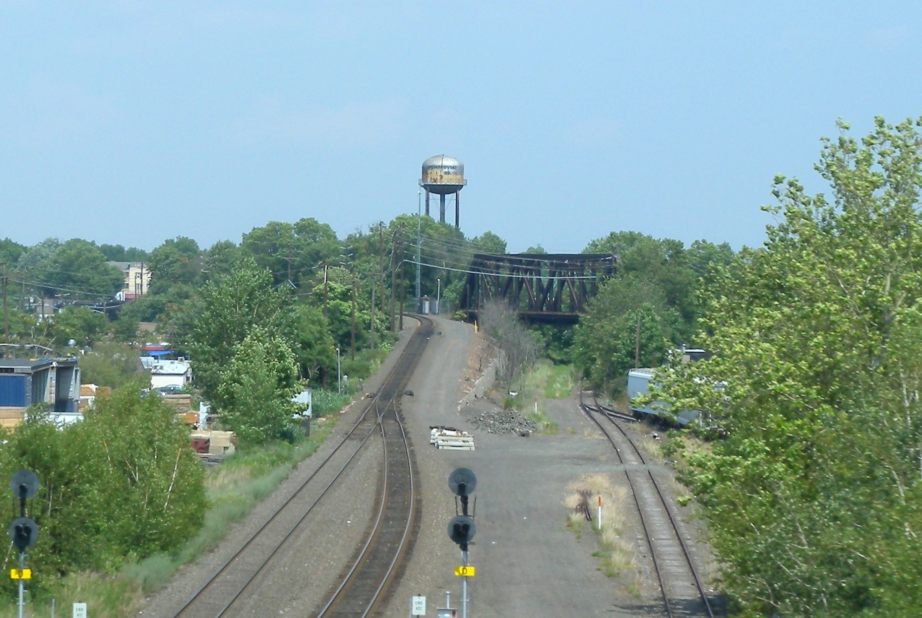 View (looking east) of Aldene junction from the Garden State Parkway northbound. The two merging tracks on the left are owned by NJ Transit. Conrail owns the tracks of the Lehigh Valley Line. The single track on the right and from where the hopper car is sticking out (a loading siding reconnecting to the line near the overpass) is now owned by NJ Transit. They used to be the Central Railroad of NJ's main line running through Cranford station and terminating in Jersey City. With the coming of Aldene this line saw increasingly less traffic and was eventually abandoned. The existing tracks are now totally covered in thick brush and trees.